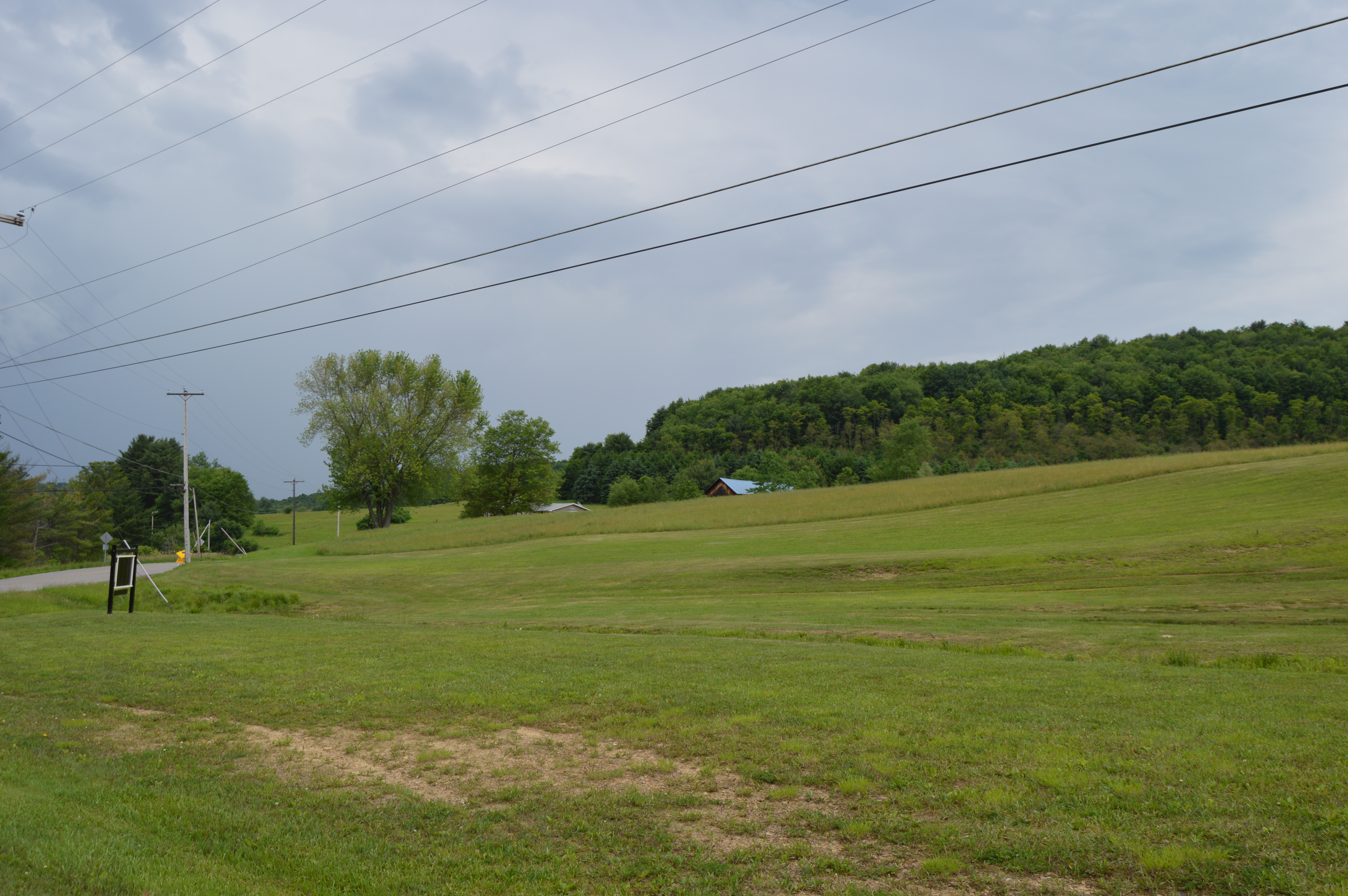 Looking south along Pennsylvania Route 949 from the Love Road intersection, south of Corsica, in Clover Township, Jefferson County, Pennsylvania, United States.